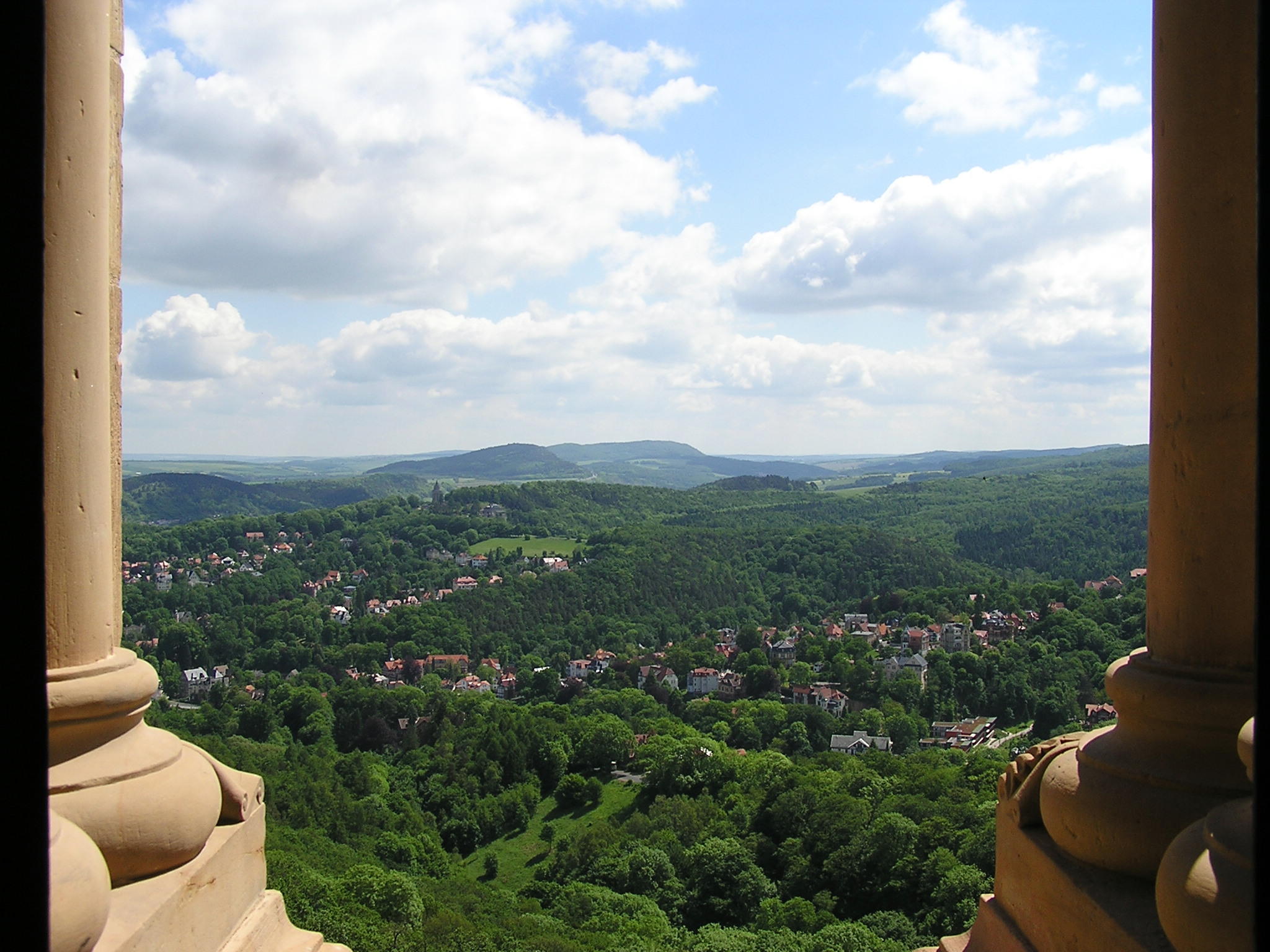 Eisenach as seen from the Wartburg